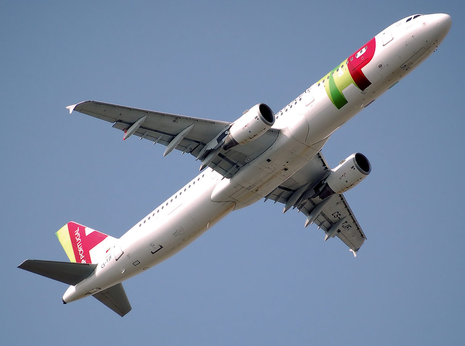 TAP Airbus A321-200 (CS-TJF) taking off from London Heathrow Airport.